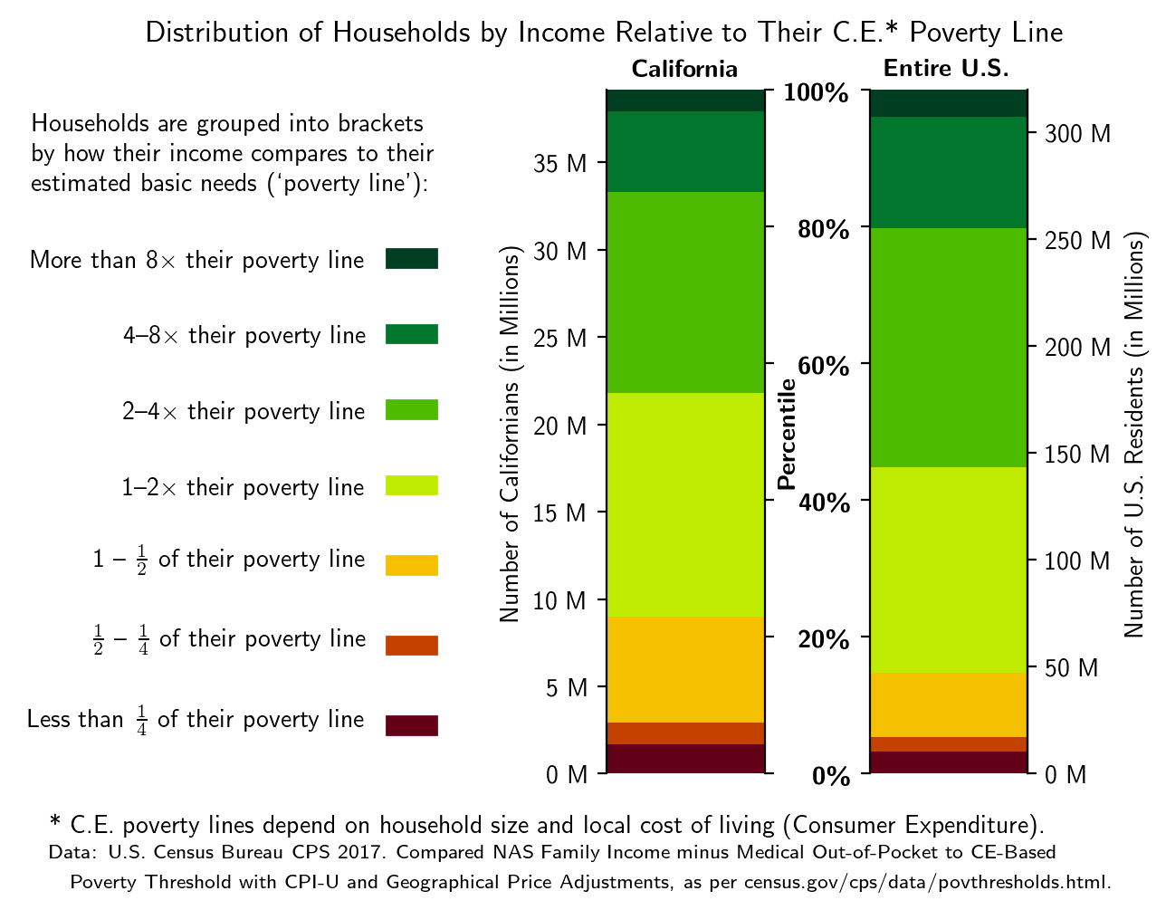 Comparison of the distributions of U.S. and California households by how their income compares to their CE-based poverty line. Uses 2017 CPS data (US Census Bureau) about incomes in 2016. Comparison is of NAS Family Income minus Medical Out-of-Pocket to CE-Based Poverty Threshold with CPI-U and Geographical Price Adjustments, as per Generated in Python, let me know if you'd like the code.